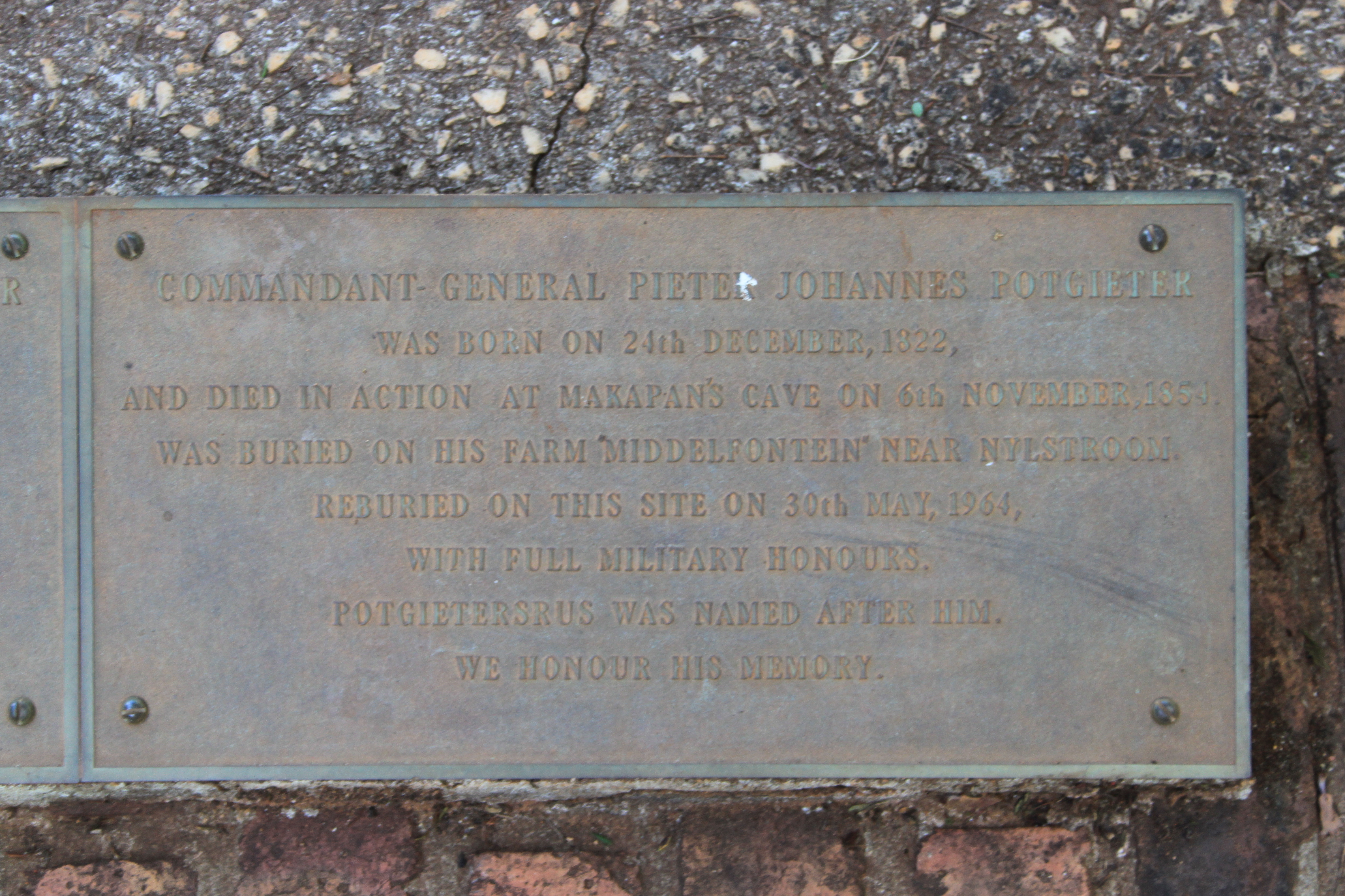 Mokopane, 0601, South Africa